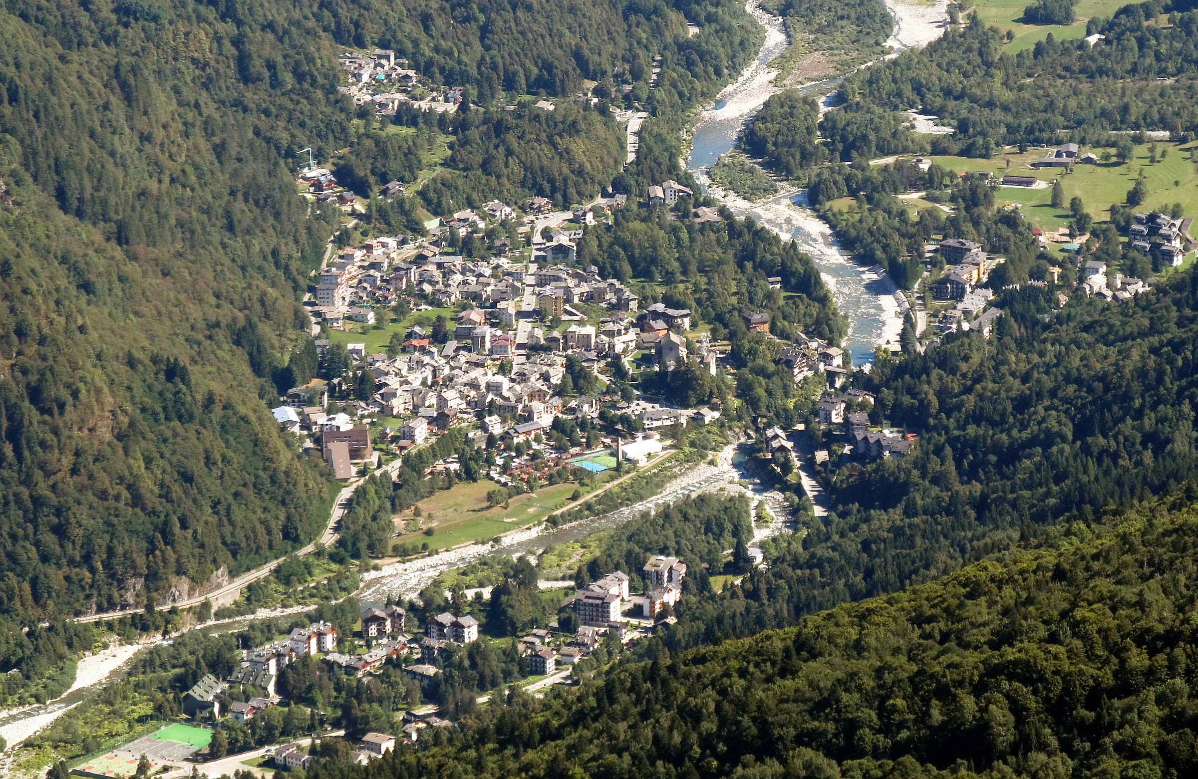 Scopello (VC, Italy) and Sesia river from Cima d'Ometto